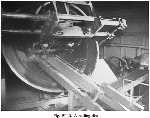 Balling disk used in sinter plants for Pelletizing